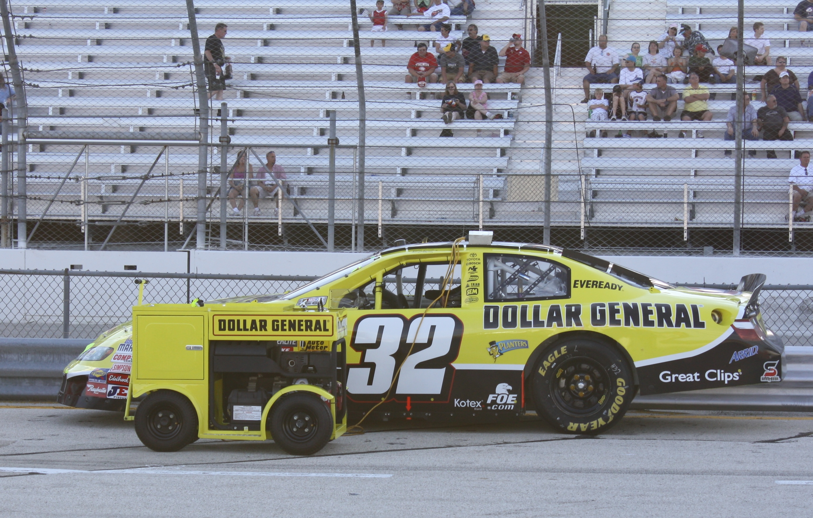 NASCAR driver Burney Lamars Toyota at the 2009 Northern 250 Nationwide Series race at the Milwaukee Mile.